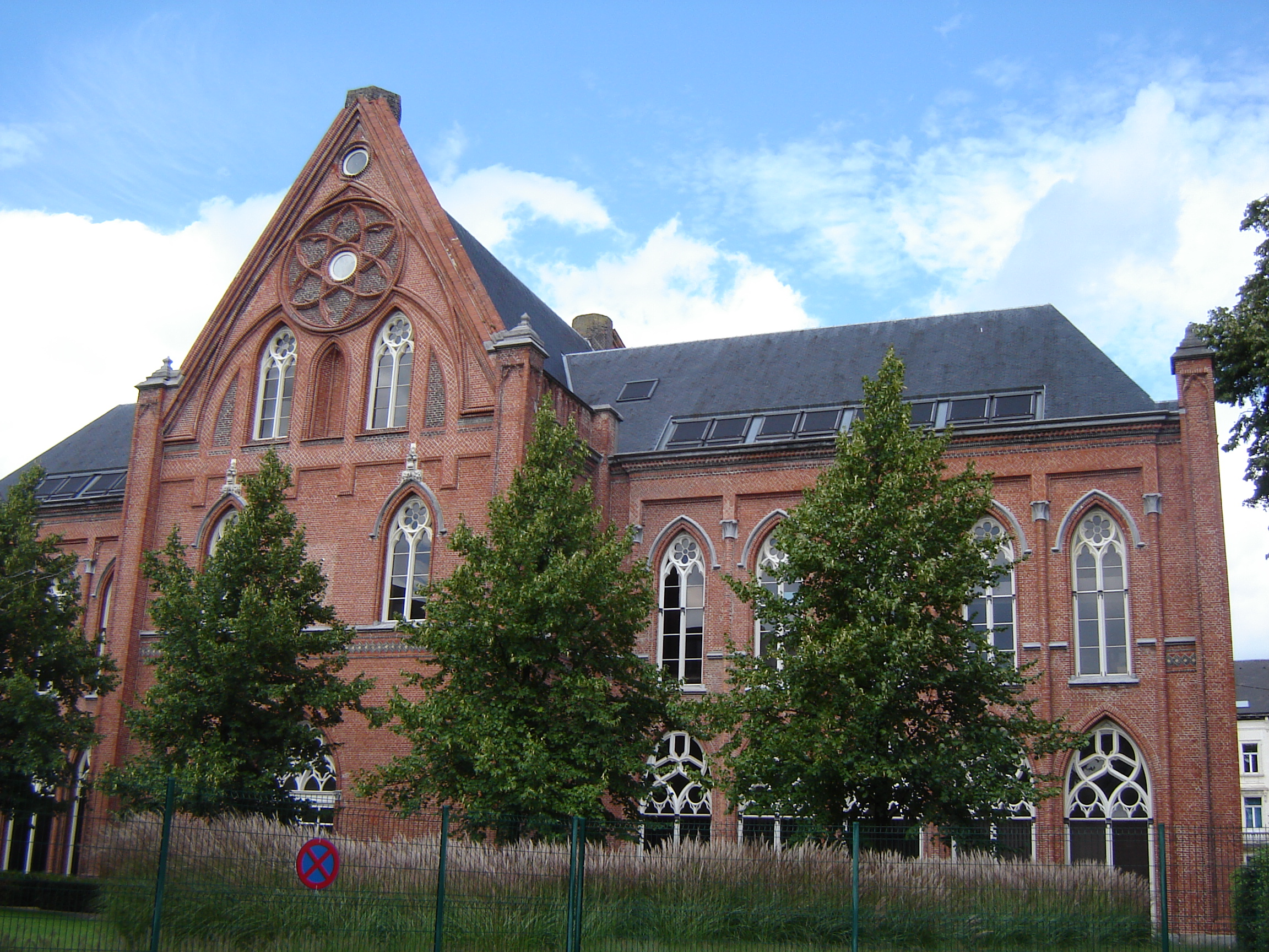 Rear side of the Van Caneghemgesticht in Ghent. Built 1852-1855. Former home for the blind. Gent, East Flanders, Belgium